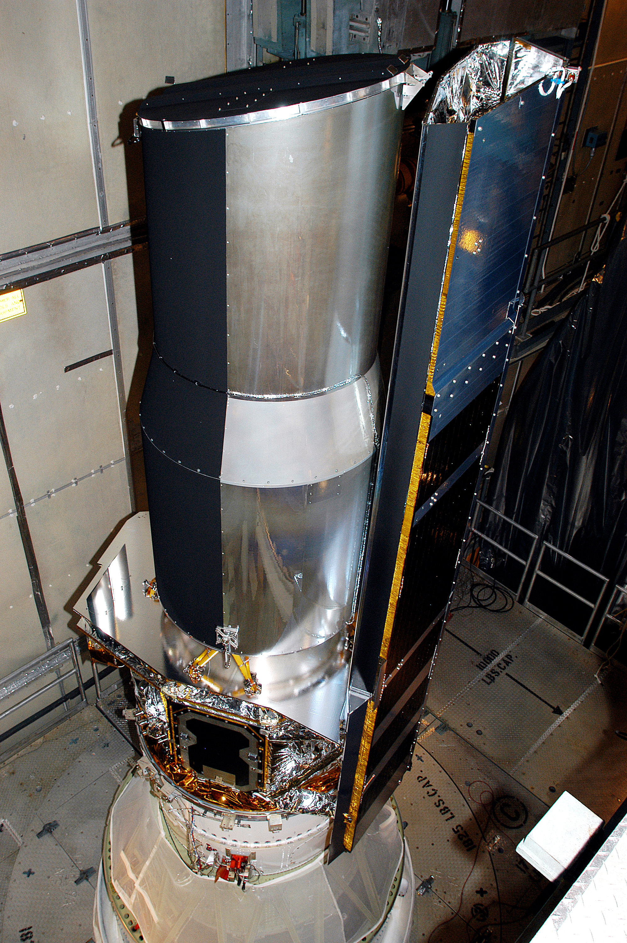 In the mobile service tower on Launch Pad 17-B, Cape Canaveral Air Force Station, the Space Infrared Telescope Facility (SIRTF) waits for encapsulation. SIRTF will obtain images and spectra by detecting the infrared energy, or heat, radiated by objects in space. Consisting of a 0.85-meter telescope and three cryogenically cooled science instruments, SIRTF will be the largest infrared telescope ever launched into space. It is the fourth and final element in NASA’s family of orbiting “Great Observatories.” Its highly sensitive instruments will give a unique view of the Universe and peer into regions of space that are hidden from optical telescopes.